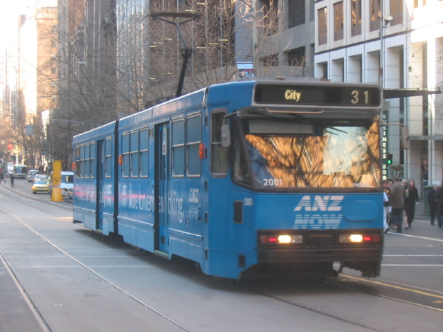 B1.2001 (adversting tram) on route 31 at Collins Street. Picture taken by myself.